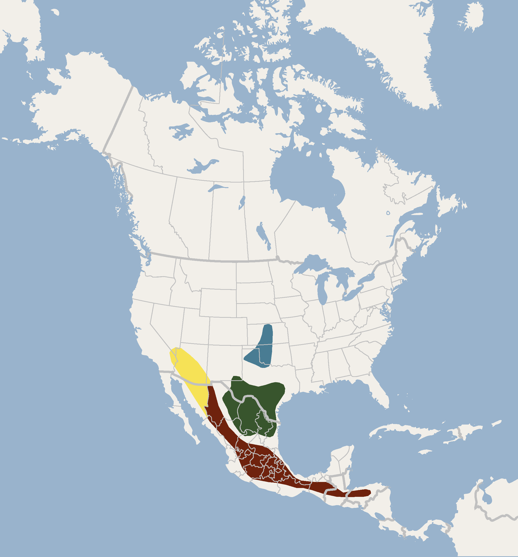 Geographical distribution of Myotis velifer according to Kays & Wilson, 2009